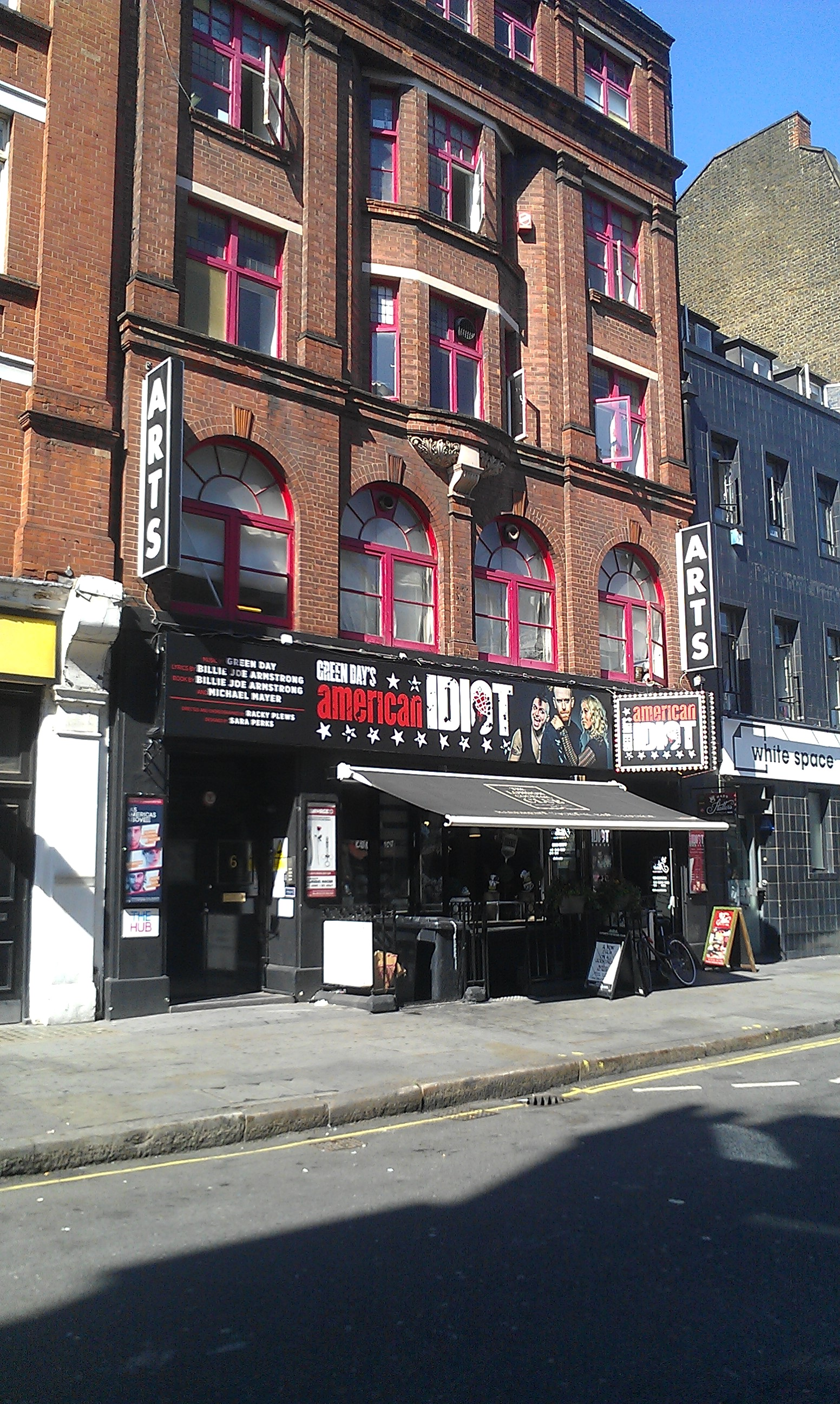 The Arts Theatre in the City of Westminster.